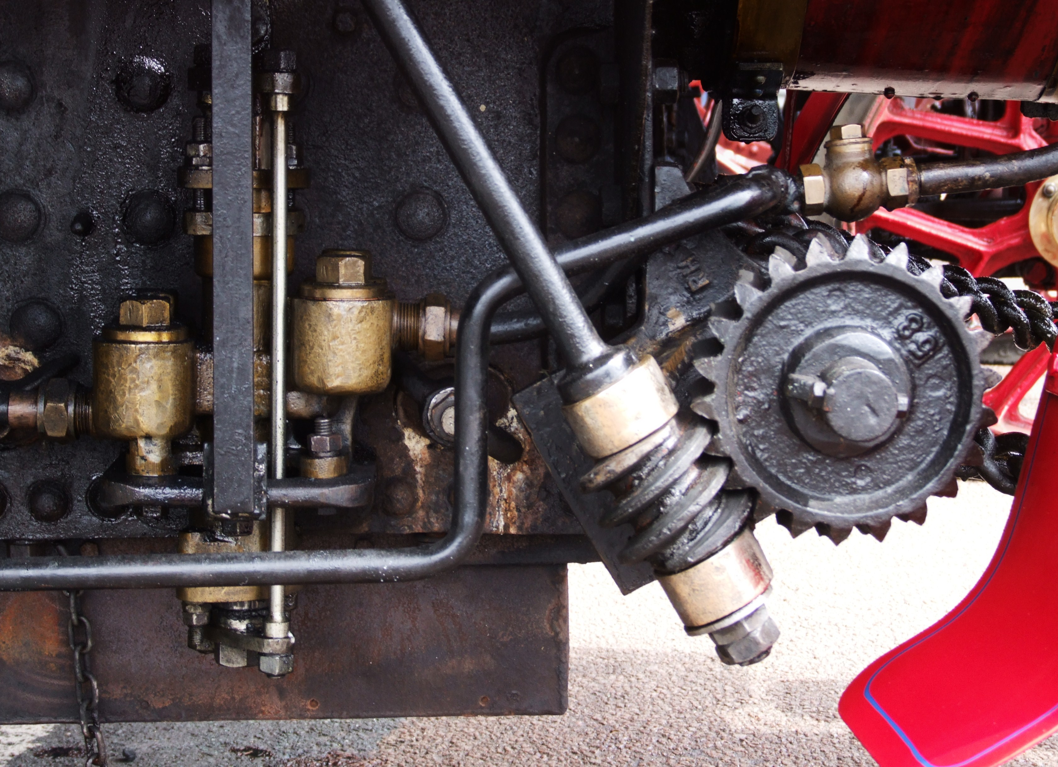 The non backdrive property of this gear makes it ideal for heavy steering mechanisms as here on this old Foden overtype wagon.